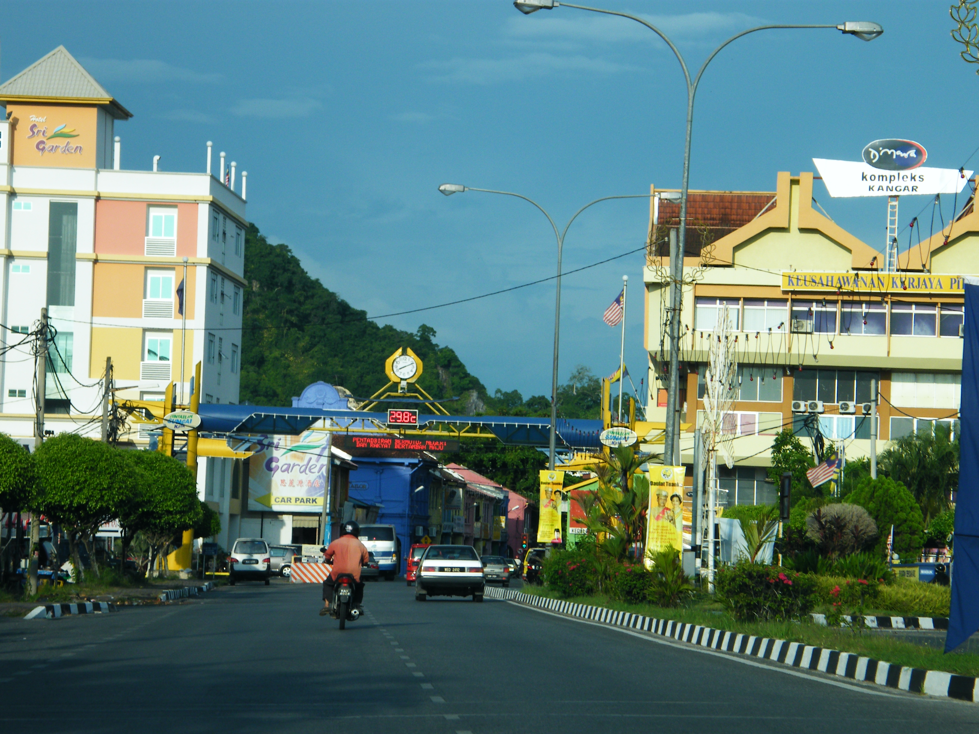 Kangar the capital of Perlis, Malaysia